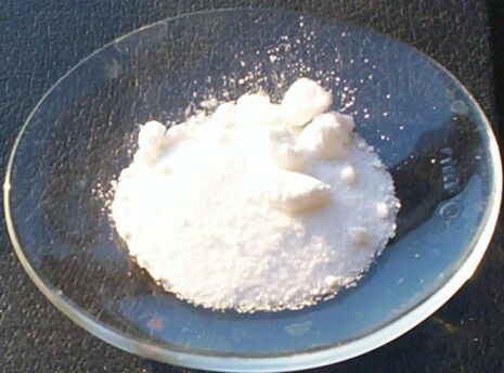 Picture of sodium metabisulfite, taken by User:Walkerma, January 2006.